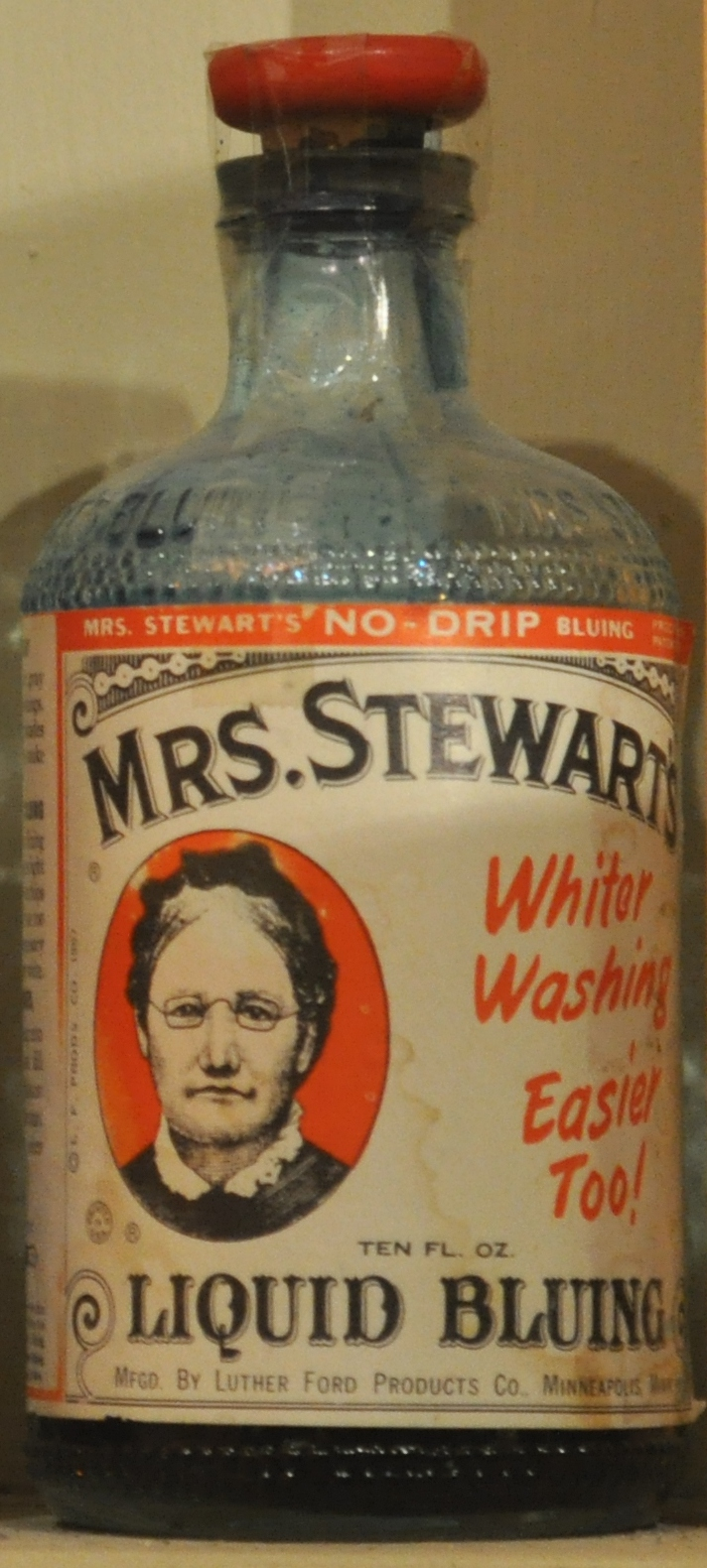 Mrs. Stewart's Bluing (bottle), early to mid 20th century, photographed at Edmonds Historical Museum, Edmonds, Washington, USA.